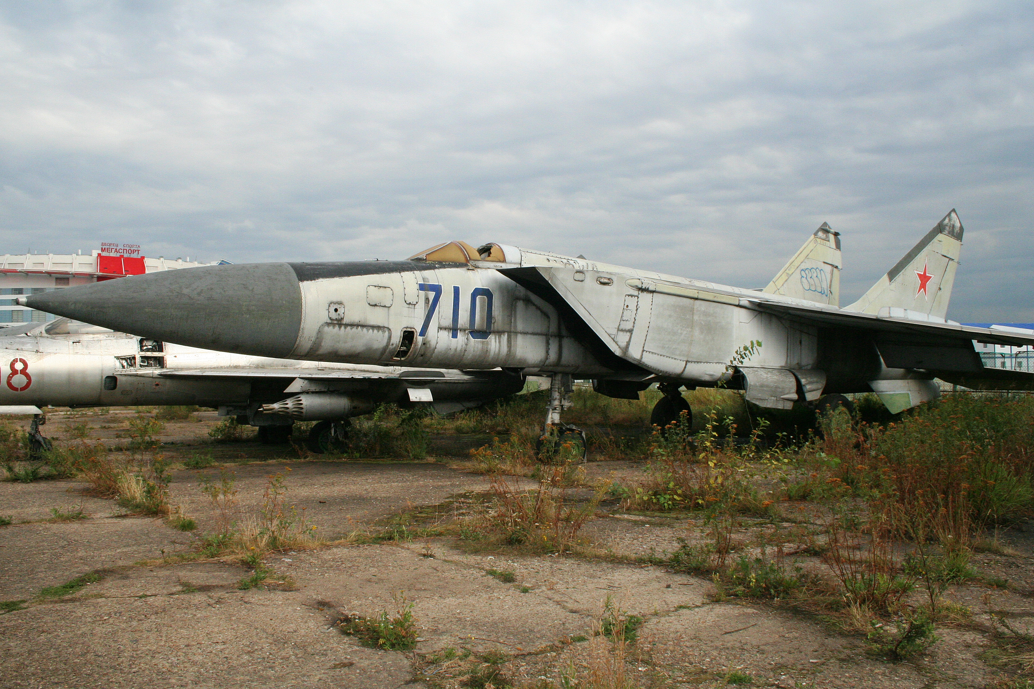 This aircraft is reportedly the Ye-266M, which was a converted MiG-25RB modified with R15BF2-300 engines. On 31st August 1977, flown by MiG OKB Chief test pilot Alexander V.Fedotov, this aircraft set the absolute altitude record for a jet aircraft under its own power, reaching 123,520ft. In fact, 'Ye-266M' was just a press name. The actual designation was E-155M. It is c/n N84019175. Previously part of the Central Aerodrome Museum at what was Frunze Central Airfield. Sadly, it is now stored and awaiting its fate. As a record breaking aircraft, surely it should be saved? Khodynka, Moscow. Russia. 11-8-2012